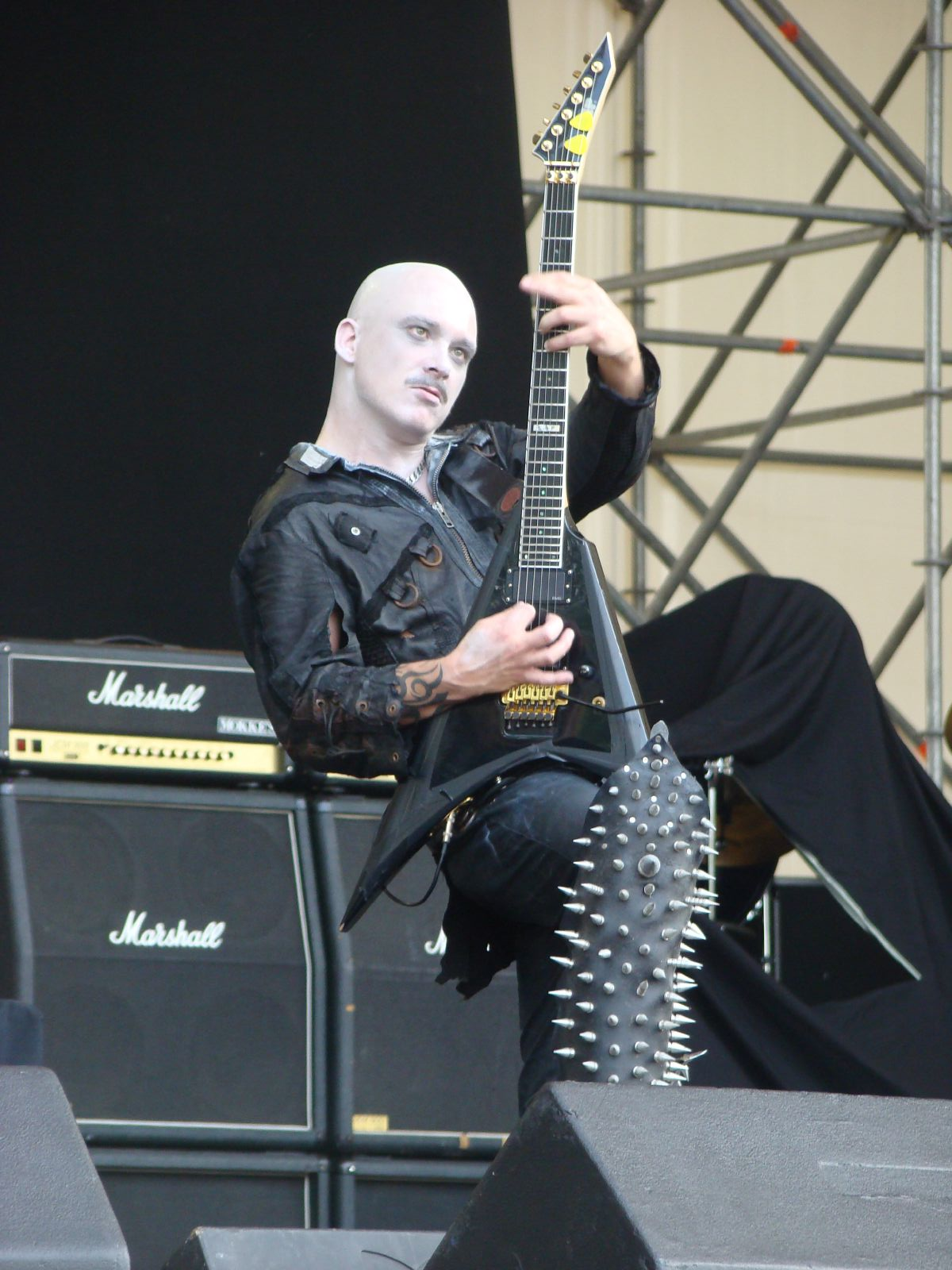 Galder (Thomas Rune Andersen), guitarist of Dimmu Borgir and creator of Old Man's Child. Live perfomance.